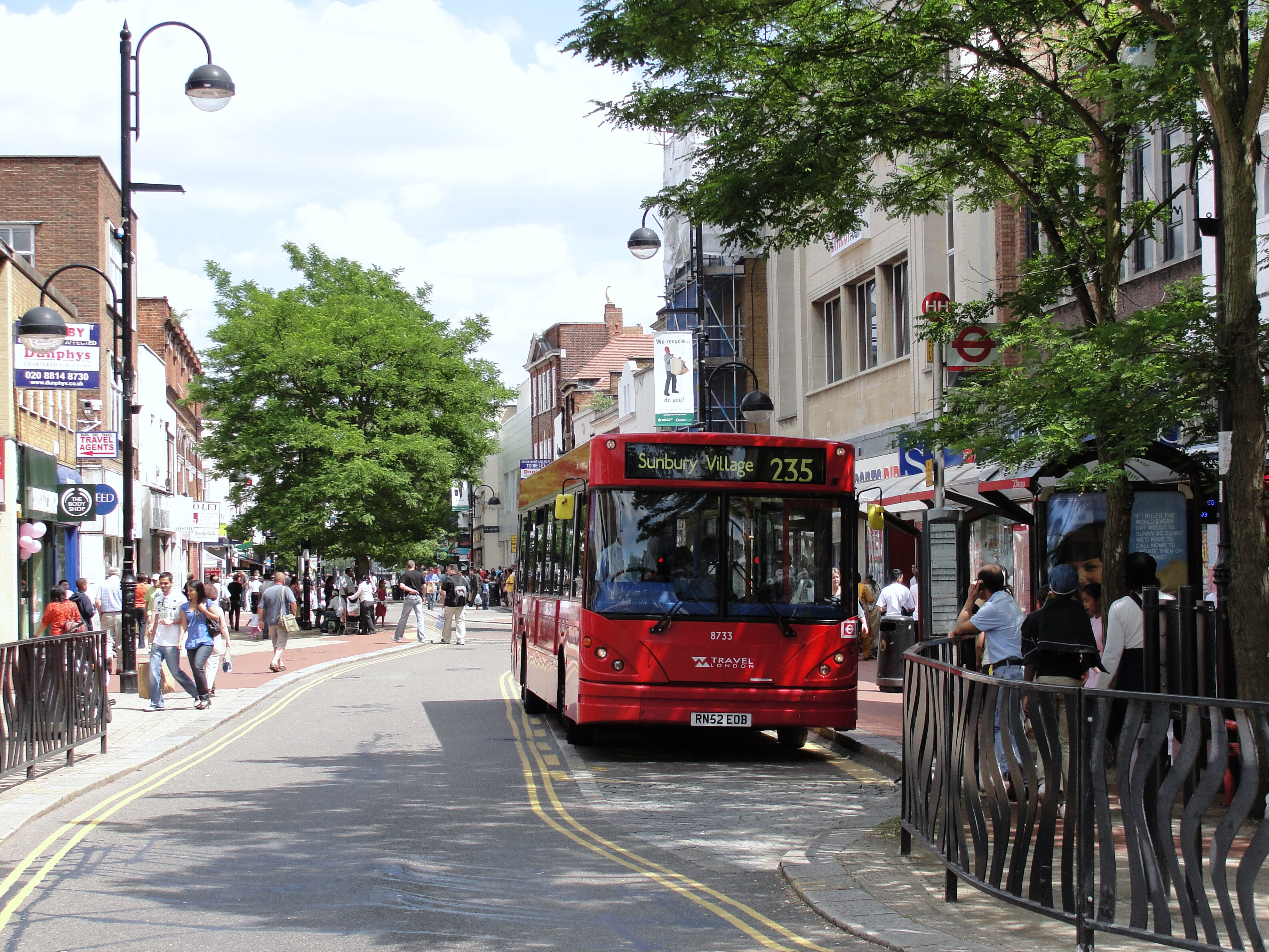 London 235 single decker bus, outside of W H Smith